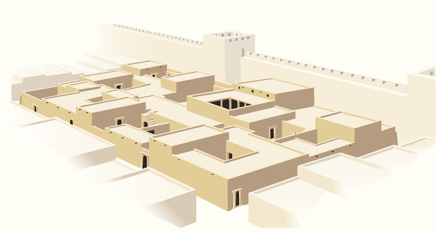 Isometric view of Block L7, Dura Europos, with the Synagogue.